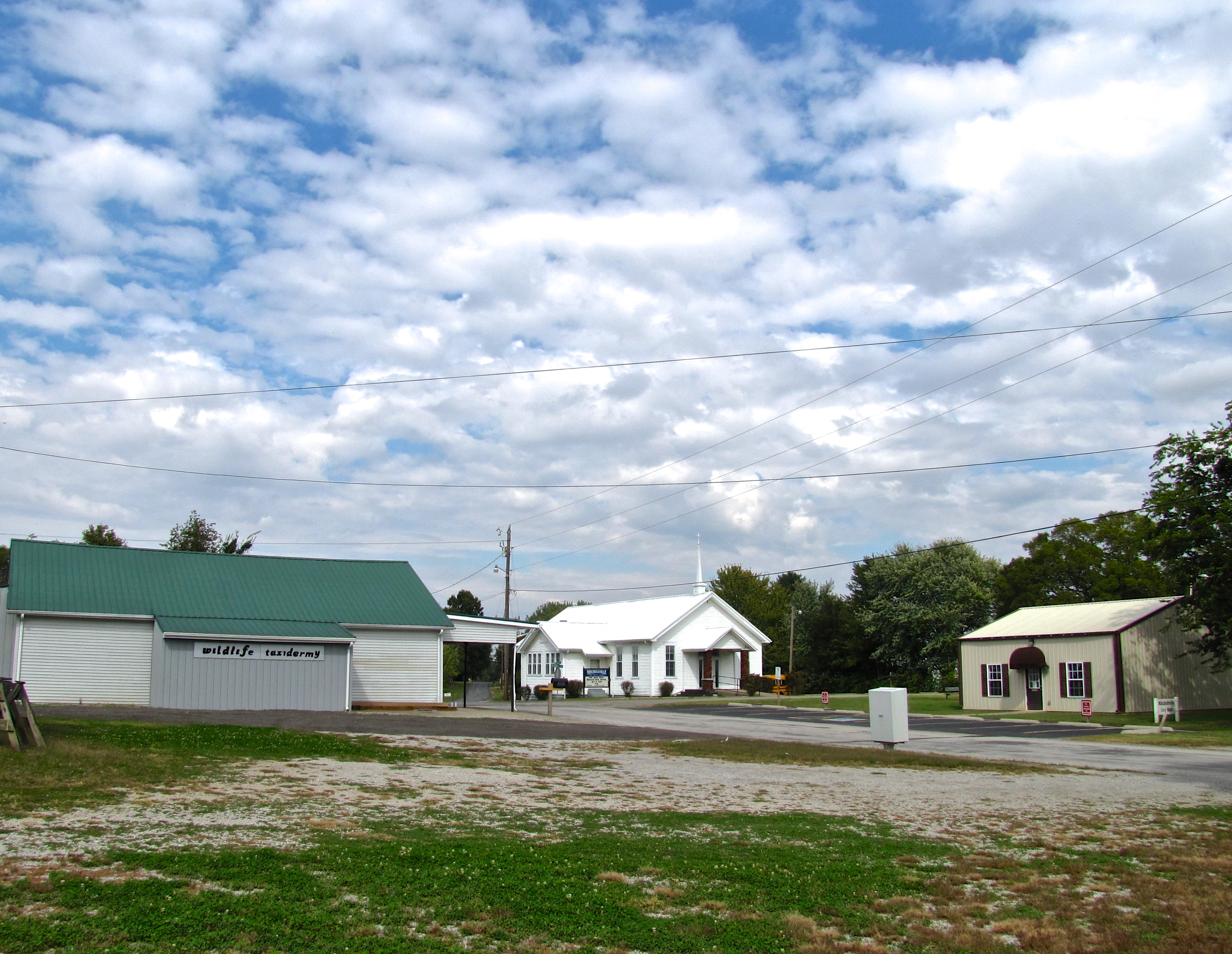 Buildings along Church Street in Mitchellville, Tennessee, United States. Mitchellville City Hall is on the right; MItchellville First Baptist Church is at center.